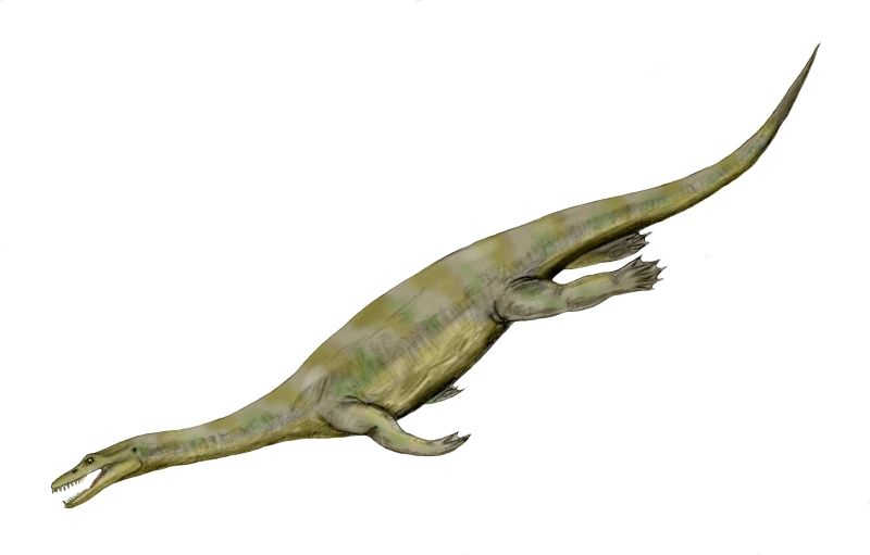 Nothosaurus mirabilis, a Nothosaur from the Triassic of Europe, North Africa and Russia, pencil drawing